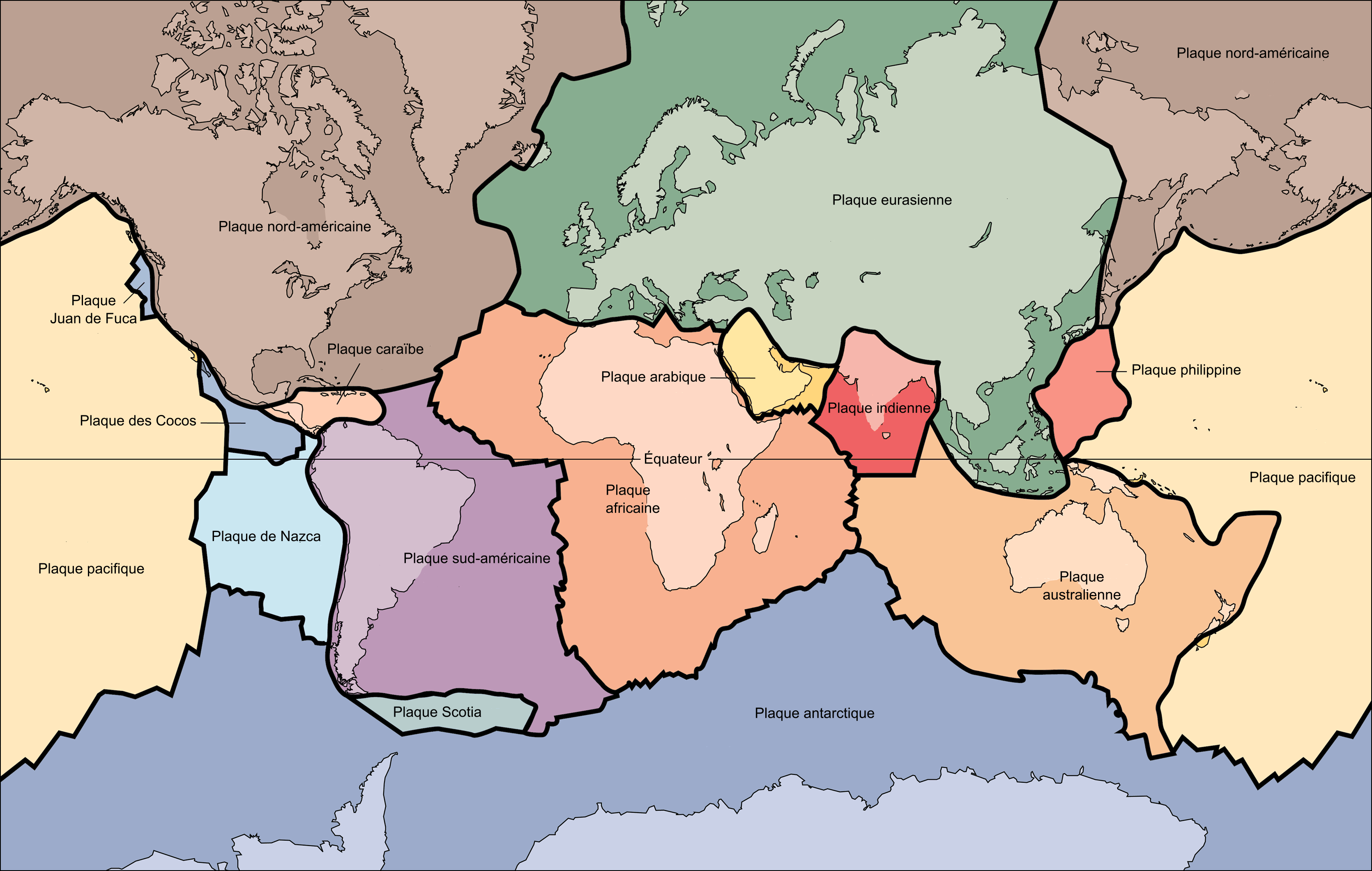 French text version of Image:Tectonic plates (empty).svg. Tectonic plates of the Earth.